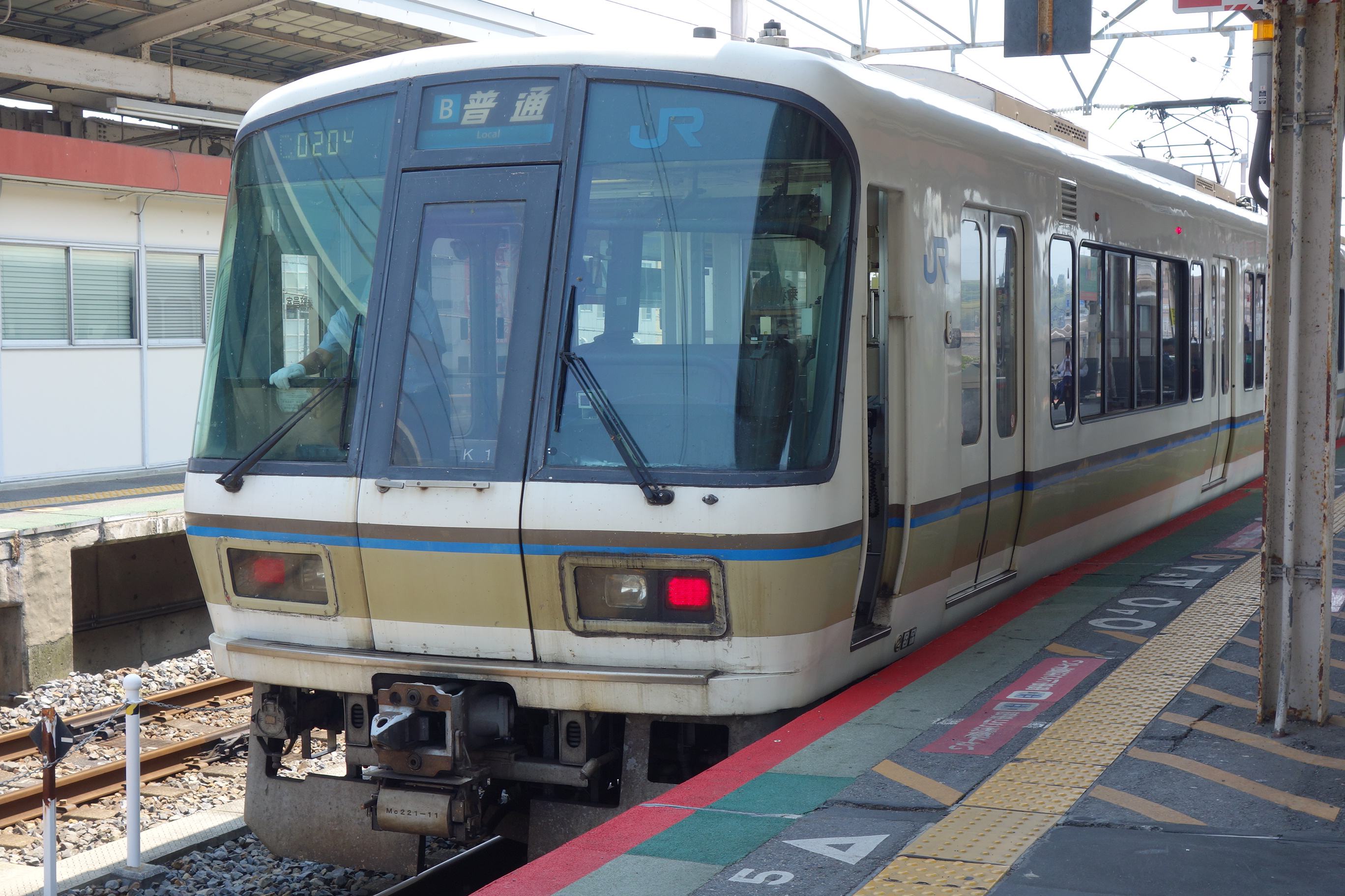 JR West 221 series